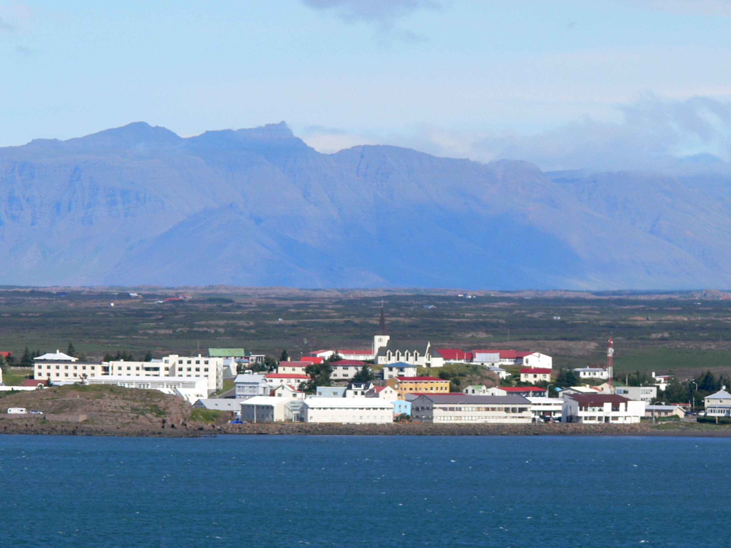 Borgarnes. View of the city.